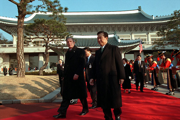 President George W. Bush and President Kim Dae-Jung proceed through an arrival ceremony at The Blue House in Seoul, Republic of Korea, Feb. 20, 2002. "I understand how important this relationship is to our country, and the United States is strongly committed to the security of South Korea. We'll honor our commitments. Make no mistake about it that we stand firm behind peace in the Peninsula." White House photo by Paul Morse.